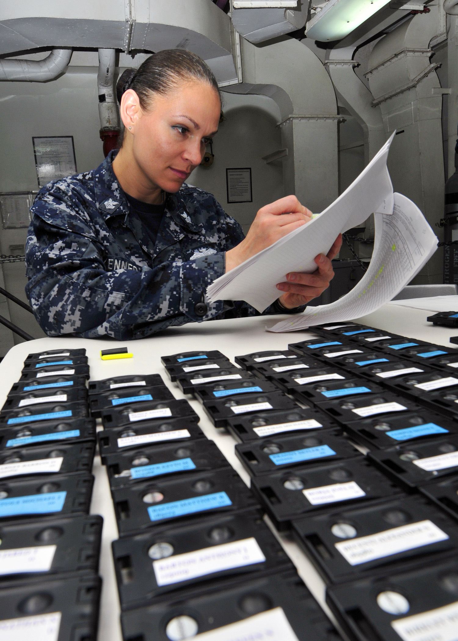 PACIFIC OCEAN (April 25, 2011) Hospital Corpsman 1st Class Angela Kennedy, from Wendover, Utah, screens the names of Sailors who have turned in their Thermo Luminescent Dosimetry (TLD) devices on the aft mess decks aboard the aircraft carrier USS Ronald Reagan (CVN 76). Sailors from engineering and reactor departments use TLDs to measure their possible exposure to radiation. Ronald Reagan is operating in the Pacific Ocean. (U.S. Navy photo by Mass Communication Specialist Seaman Nicholas A. Groesch/Released)